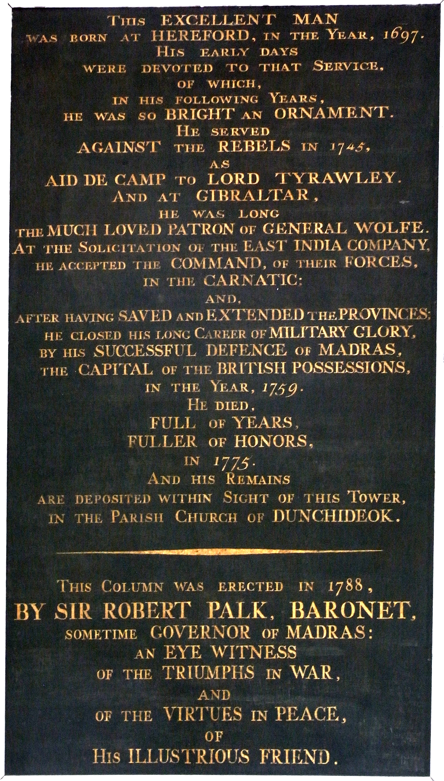 Biographical tablet (3 of 3) dedicated to General Stringer Lawrence (1697-1775), erected on the Haldon estate in 1788 together with the "Lawrence Tower" (alias "Haldon Belvedere") in which it is housed, in his memory by his friend Sir Robert Palk, 1st Baronet (1717-1798), of Haldon House, Dunchideock, Devon. Text: "This excellent man was born at Hereford in the year 1697. His early days were devoted to that service of which in his following years he was so bright an ornament. He served against the rebels in 1745 as aid-de-camp to Lord Tyrawley and at Gibraltar. He was long the much loved patron of General Wolfe. At the solicitation of the East India Company he accepted the command of their forces in the Carnatic and having saved and extended the Provinces he closed his long career of military glory by his successful defence of Madras, the capital of the British possessions, in the year 1759. He died full of years, fuller of honors, in 1775 and his remains are deposited within sight of this tower in the parish church of Dunchideok. This column was erected in 1788 by Sir Robert Palk, Baronet, sometime Governor of Madras, an eye-witness of the triumphs in war and of the virtues in peace of his illustrious friend".